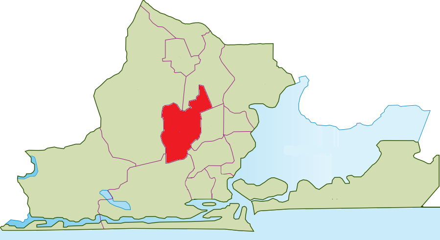 Location of Oshodi Isola within Metropolitan Lagos